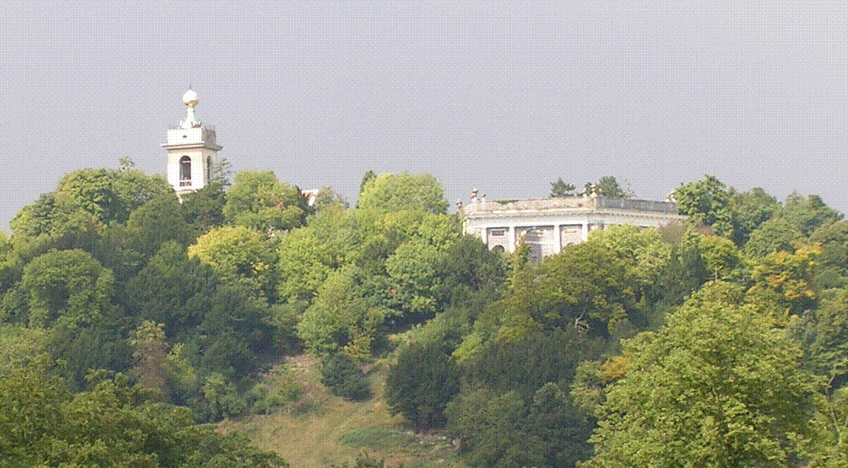 West Wycombe church and mausoleum, photographed during August 2006 by uploader